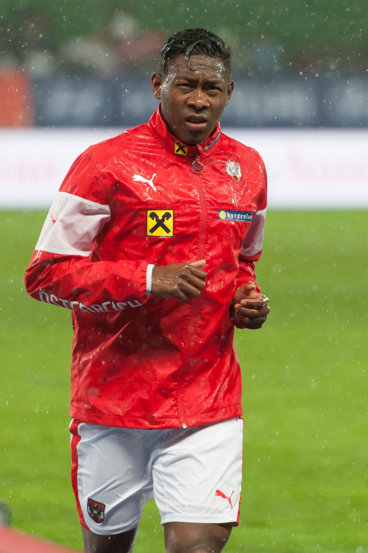 International friendly Austria vs. Bosnia and Herzegovina, 2015-03-31, Vienna